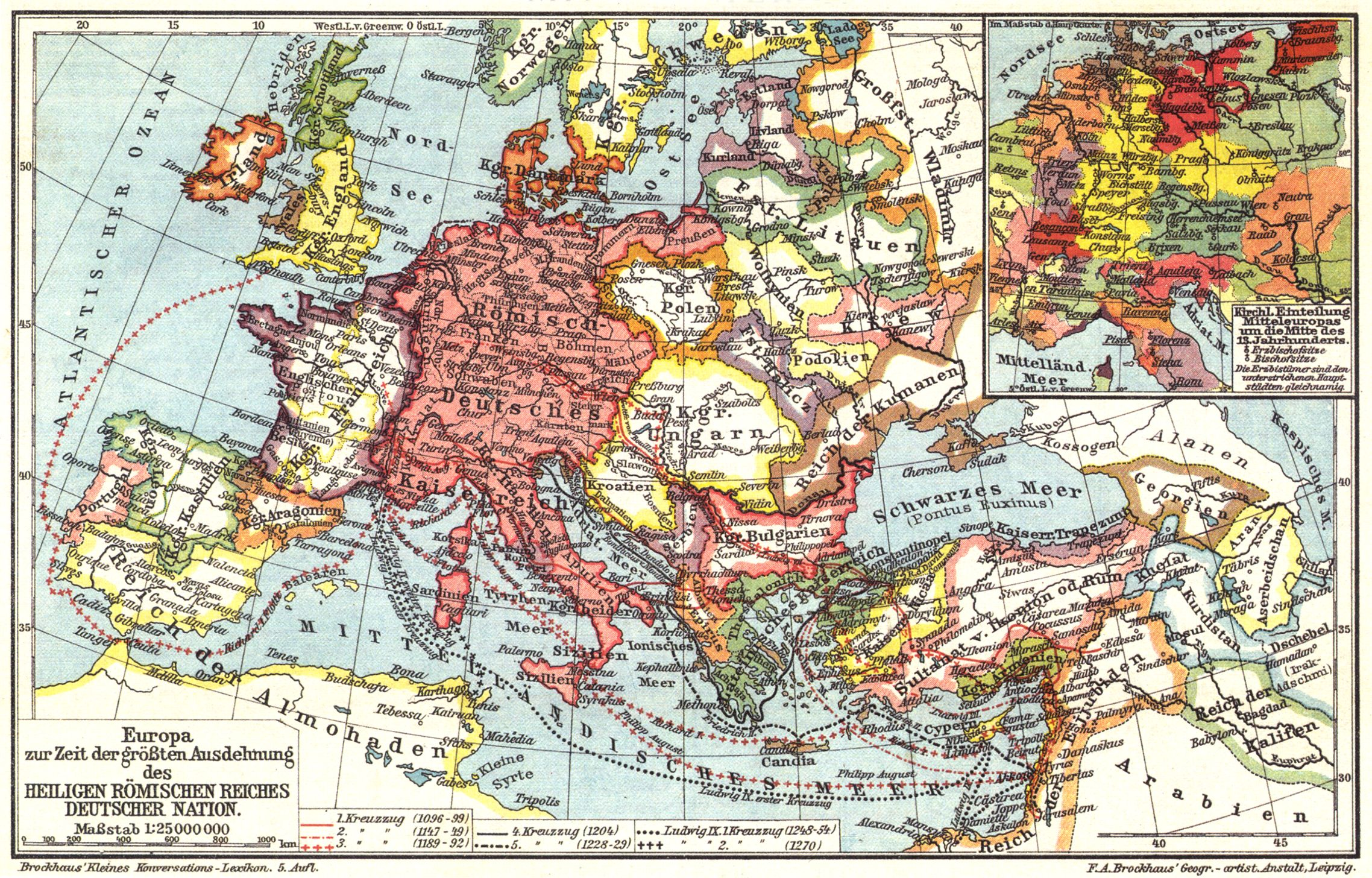 The Holy Roman Empire (of the German Nation) at its greatest territorial extent.